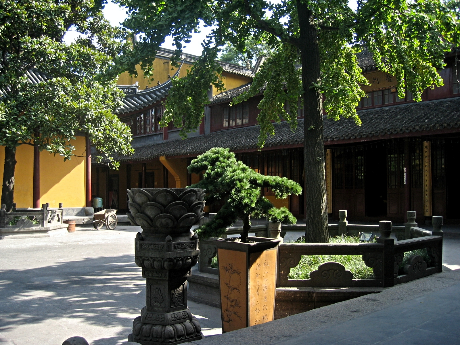 The Longhua Temple in Shanghai, China. The photograph was taken by Rolf Müller on July 27th, 2004.